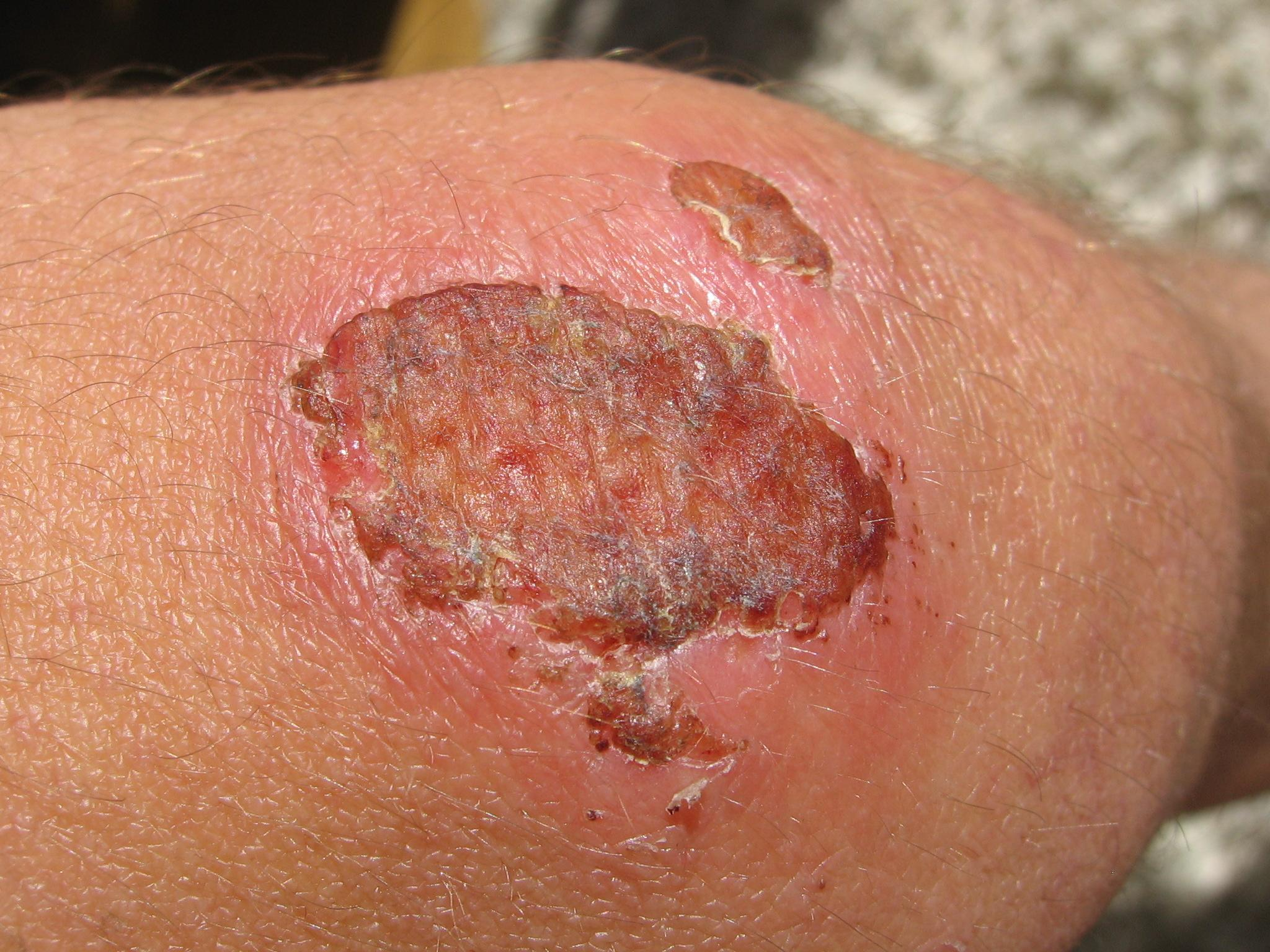 A scab on a wounded knee.